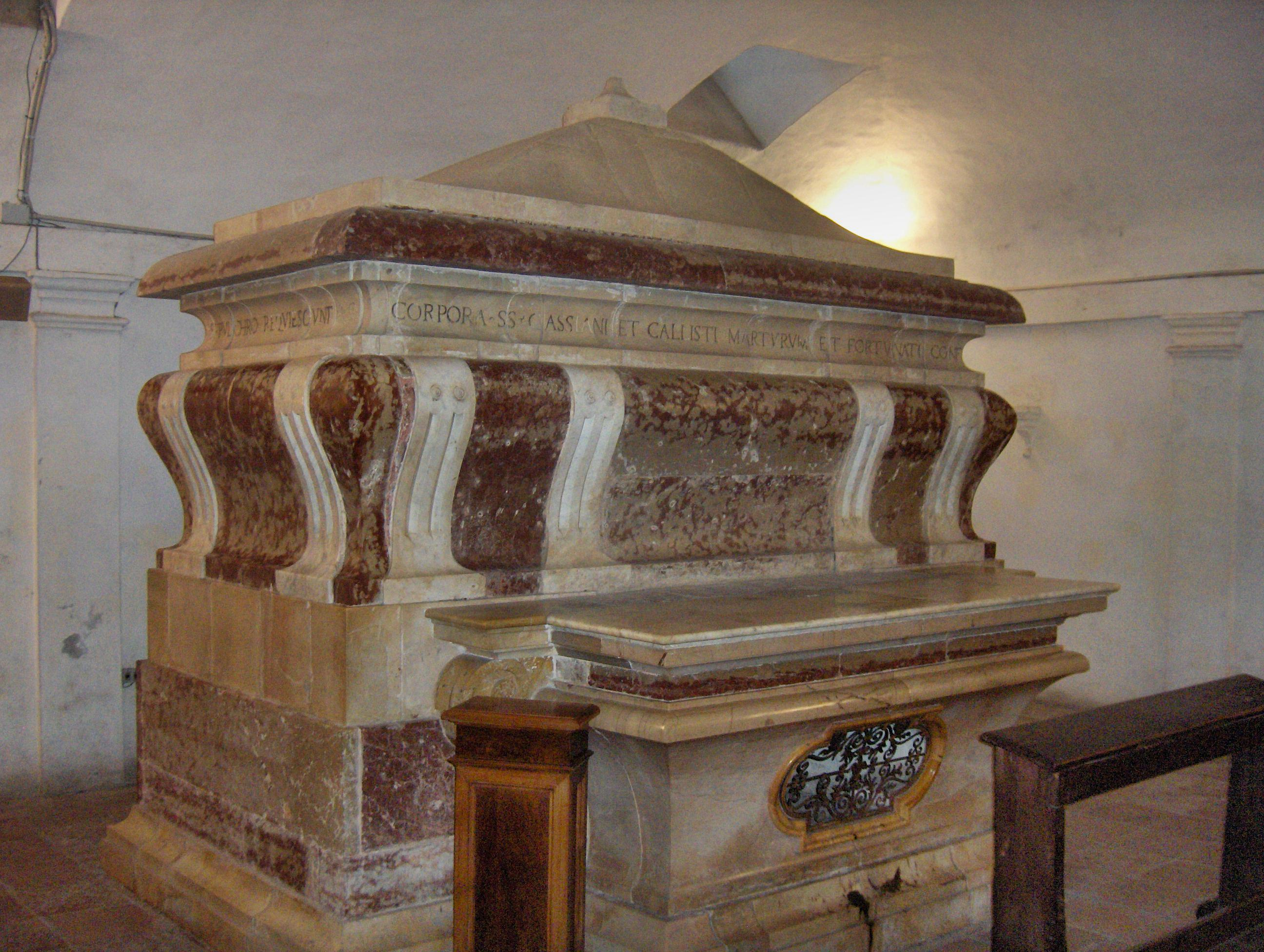 Marble sarcophagus in the crypt with the remains of the saints Romana, Callixtus, Fortunato, Cassiano, and Degna; church of San Fortunato; Todi, Umbria, Italy